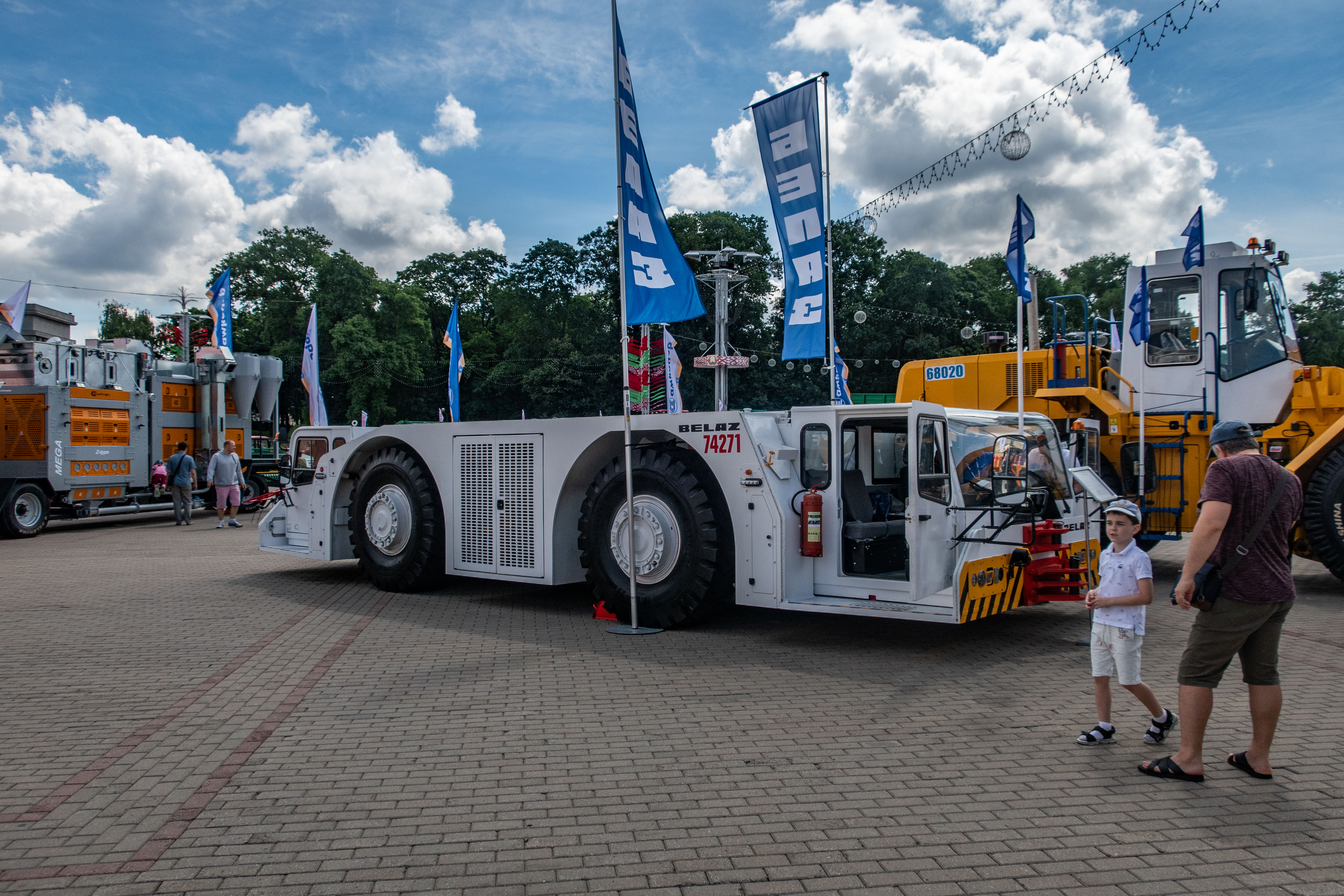 BelAZ 74271 aircraft tractor. Minsk, Belarus